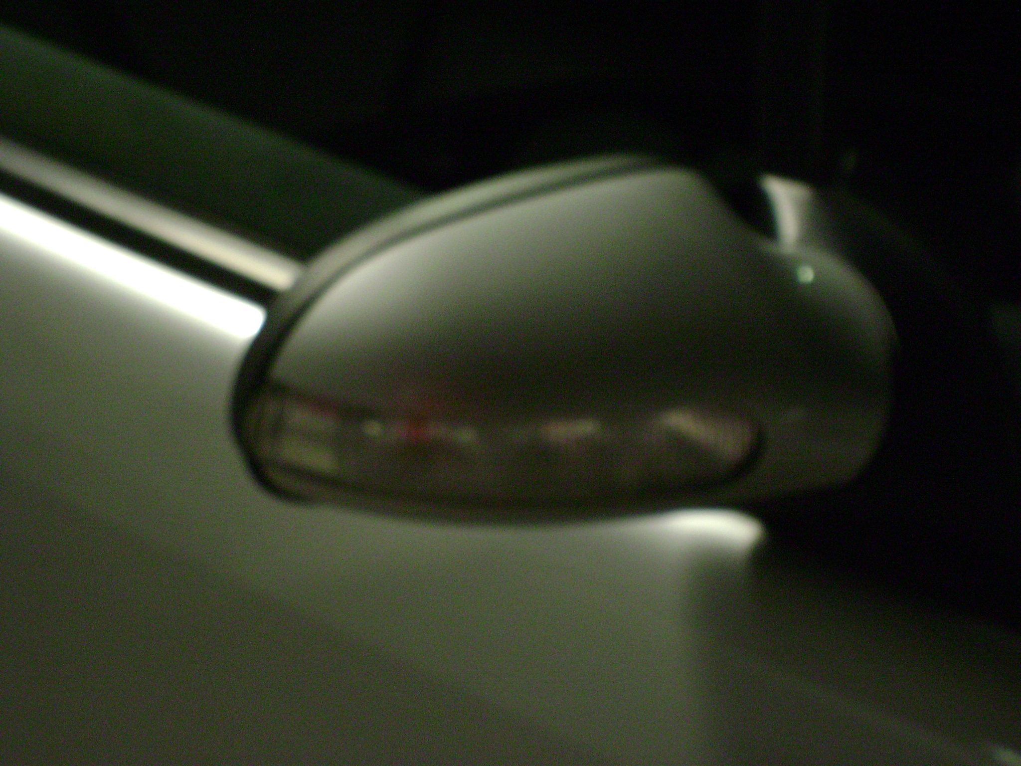 Rear-view mirror.